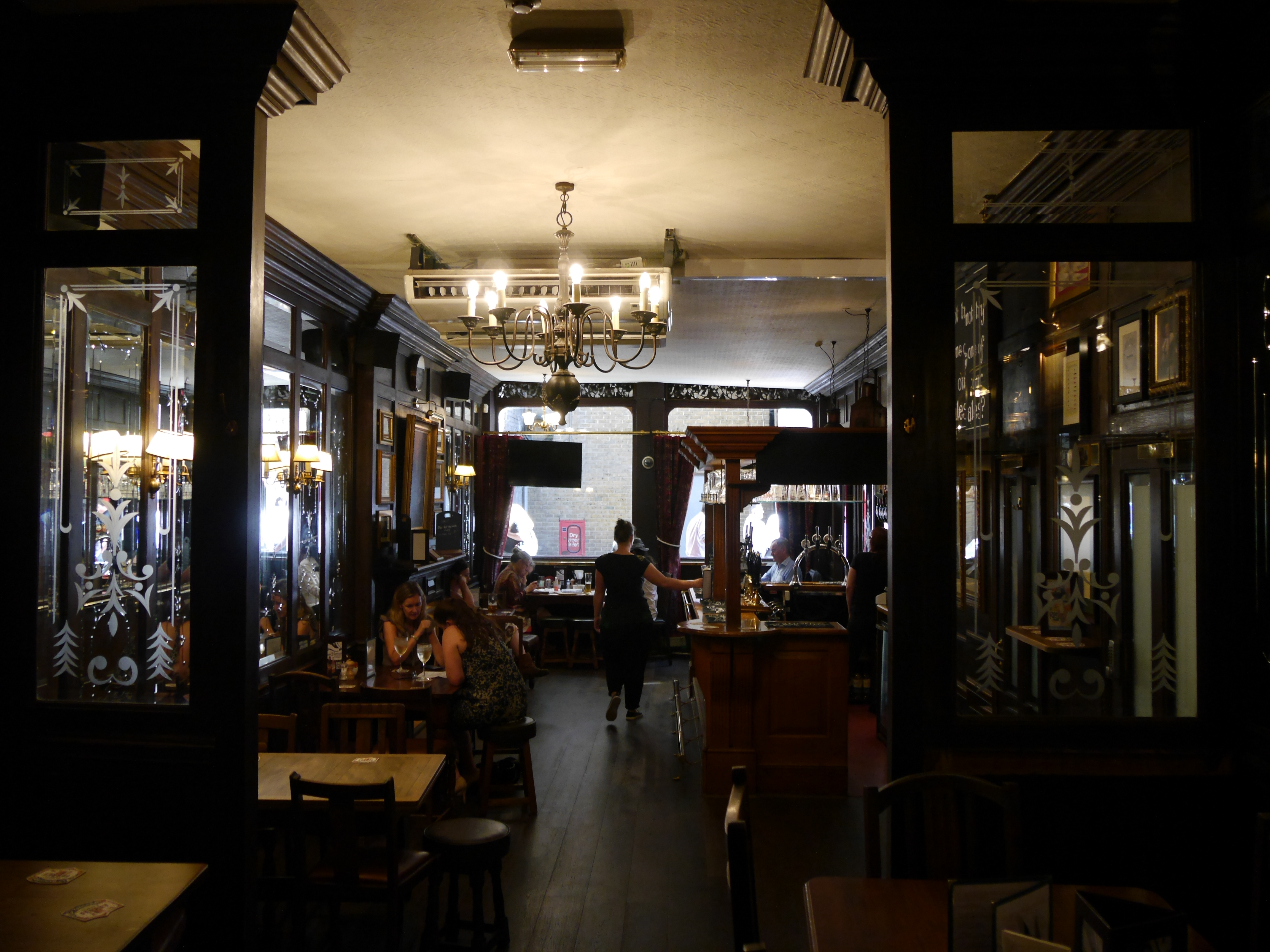 Ship and Shovell, Craven Passage, Charing Cross, London, September 2016